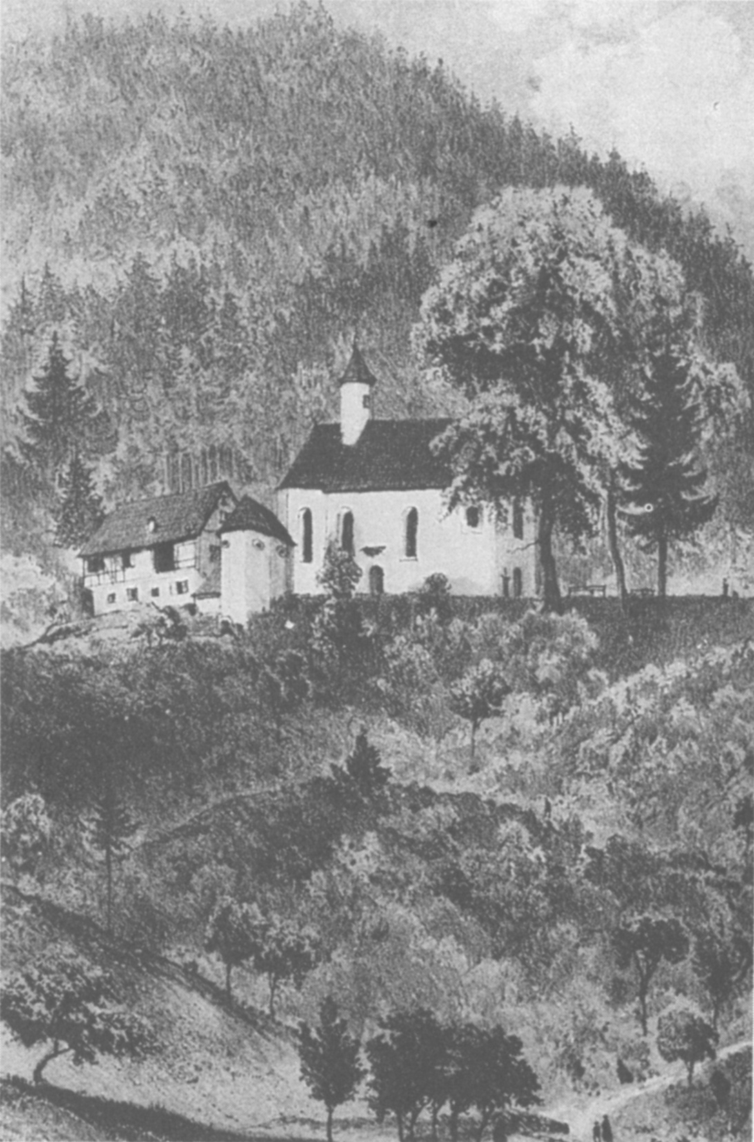 Chapel St. Jakobus in Wolfach, Baden-Württemberg, Germany, as asround 1875